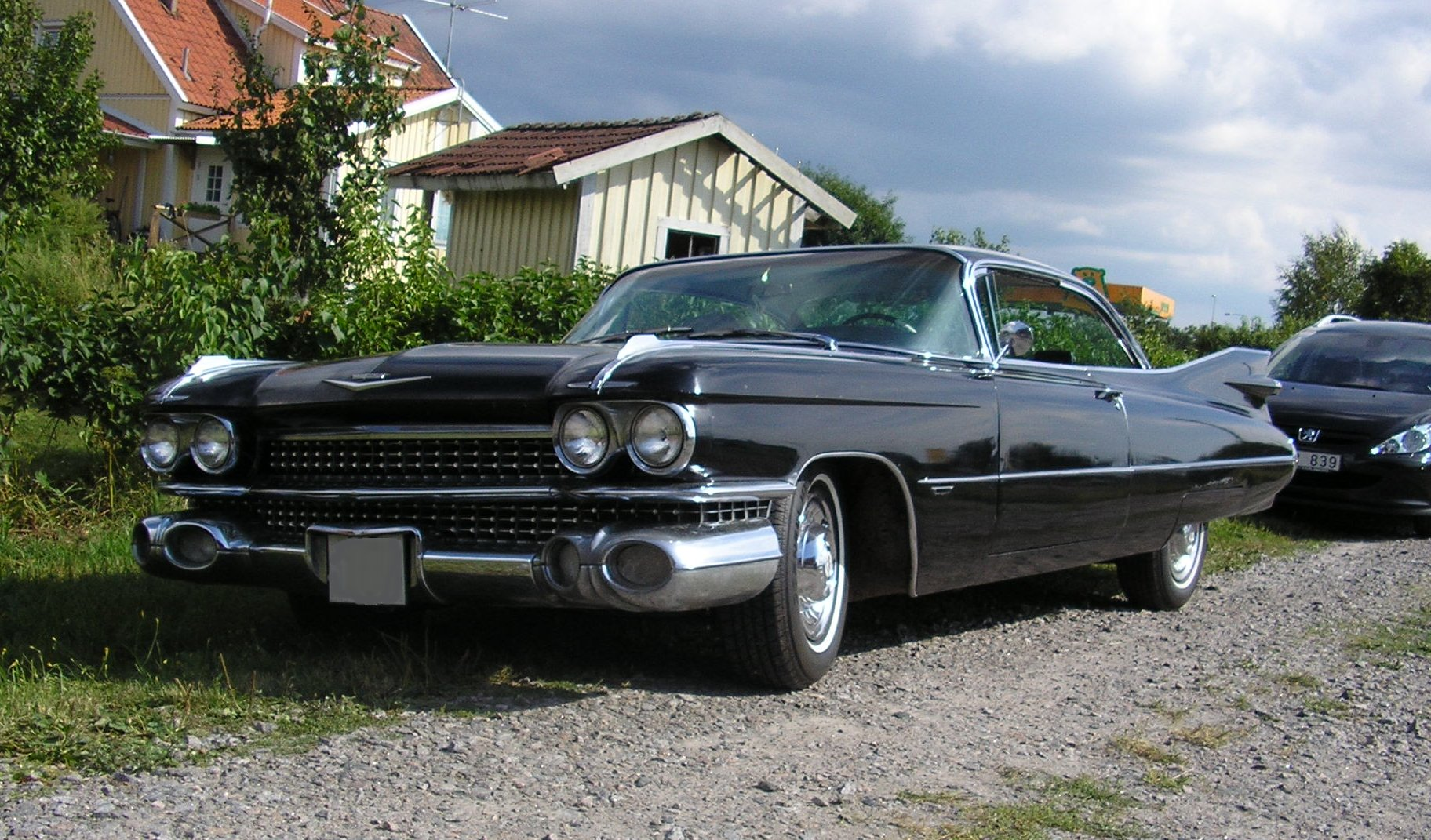 A 1959 Cadillac. This is not an Eldorado but a Series 62 Coupe.